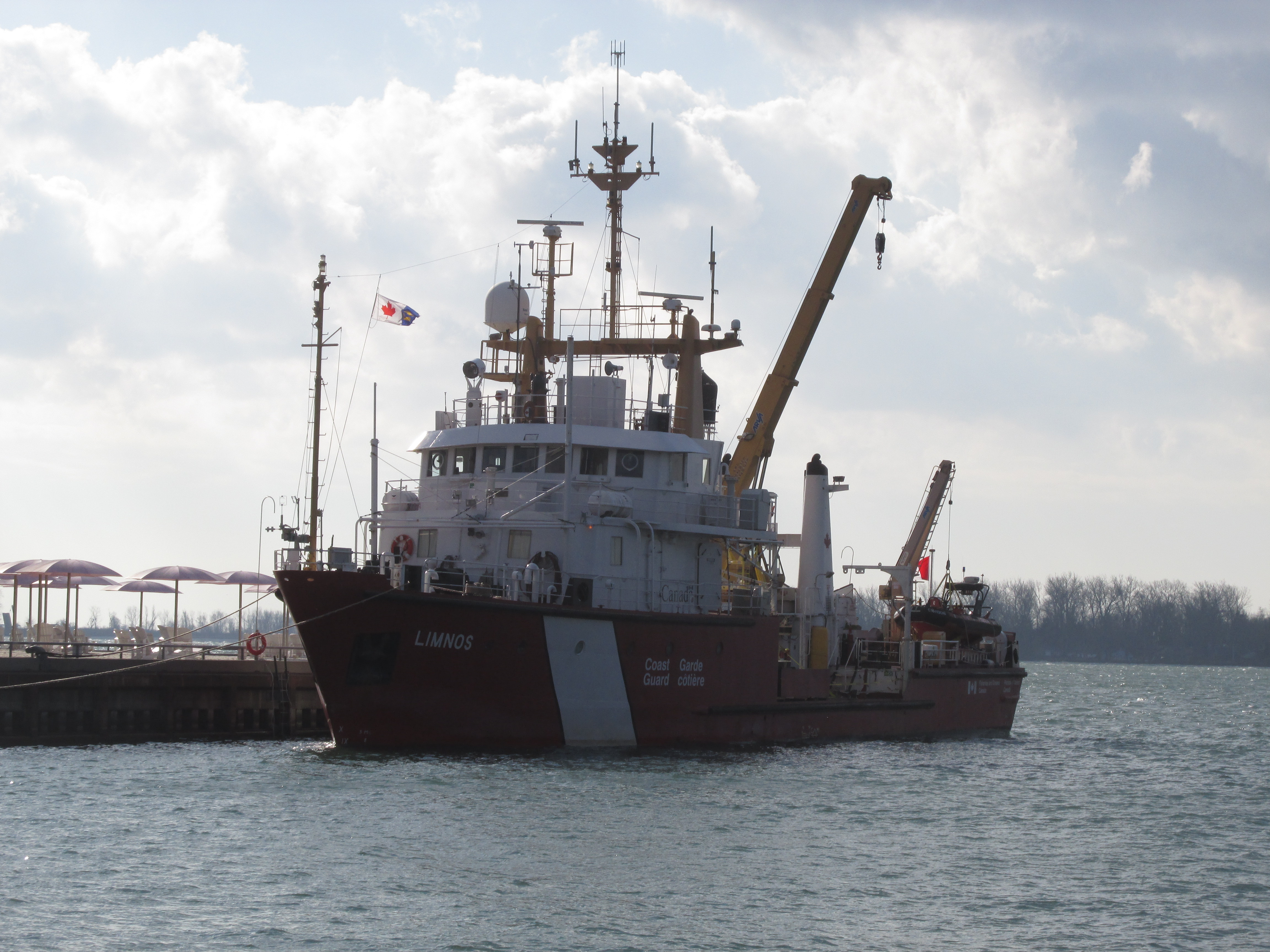 The CCGS Limnos moored in the Jarvis Slip in Toronto, Ontario, Canada in April 2019. IMO: 6804903, MMSI: 316001434, Call Sign: CG2350.